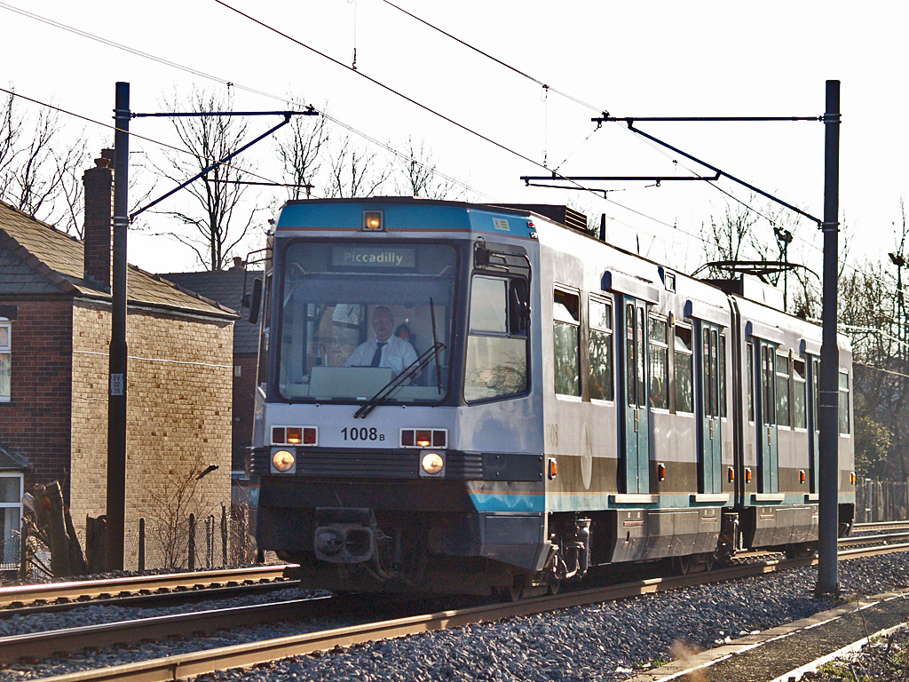 Greater Manchester Metrolink number 1008, an Ansaldo T68 (Phase 1) tram approaches Dolly Molly foot crossing at Radcliffe with a Bury bound service. Monday 11th February 2008